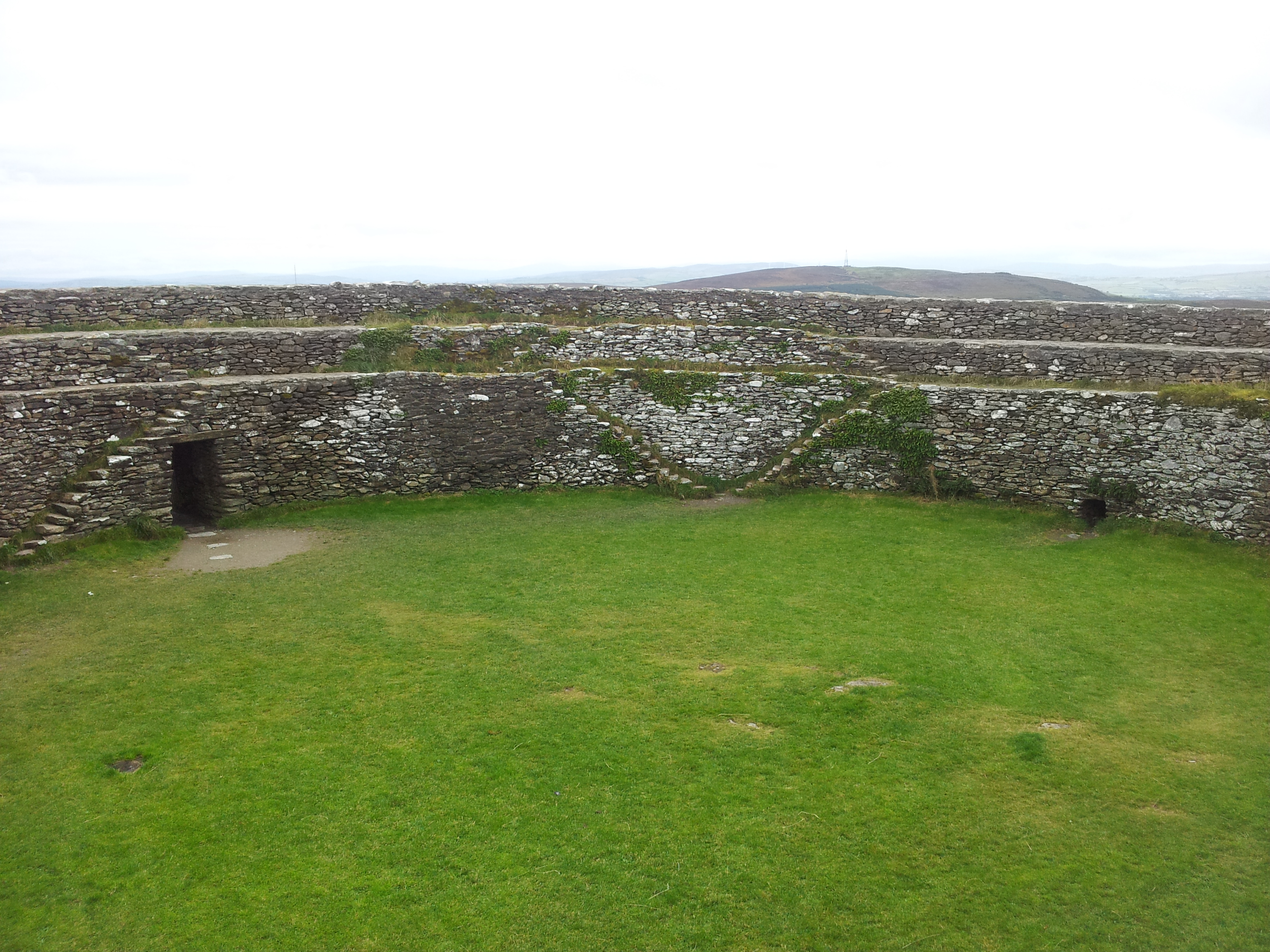 Grianan of Aileach